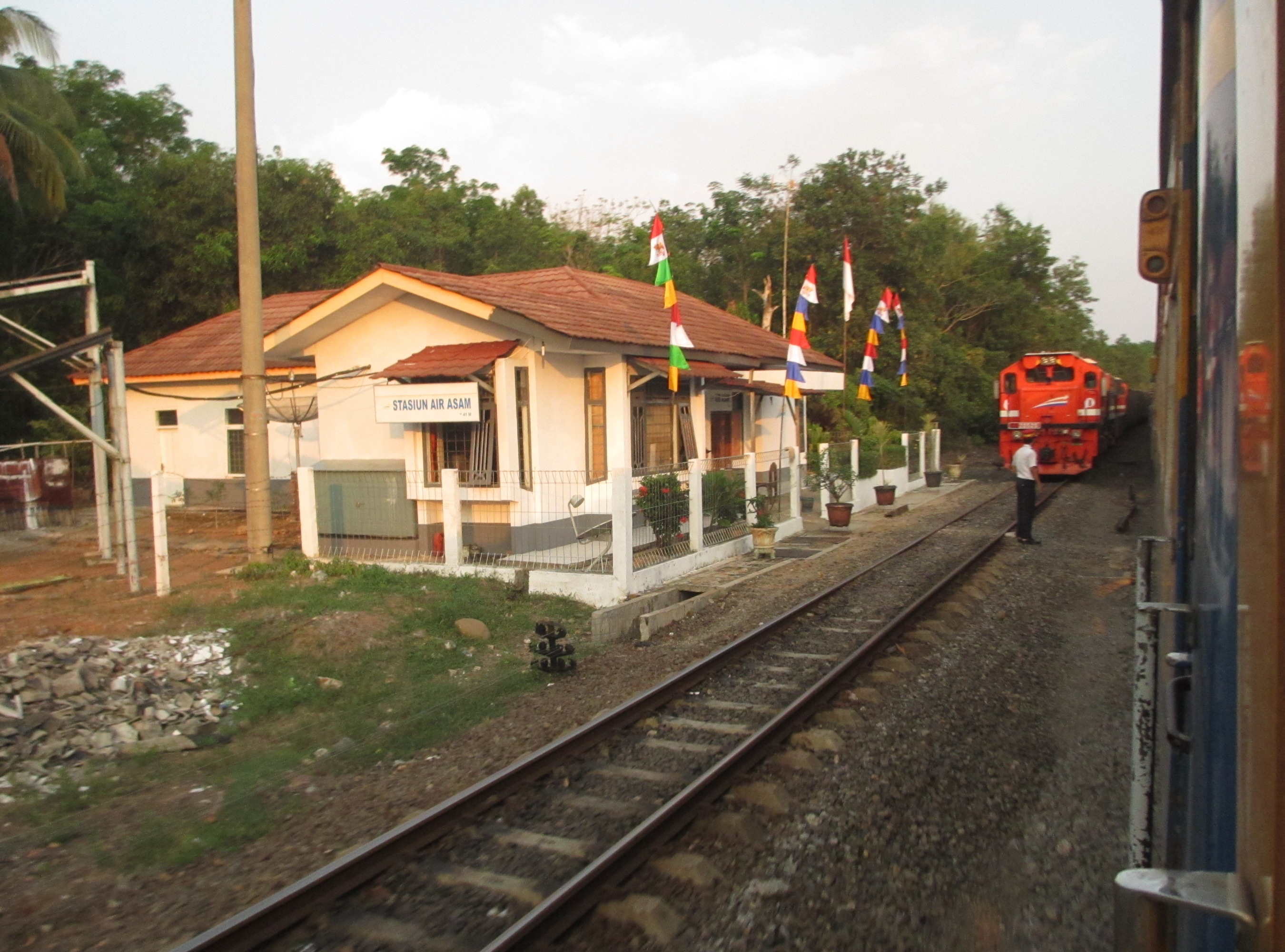 Airasam Railway Station.